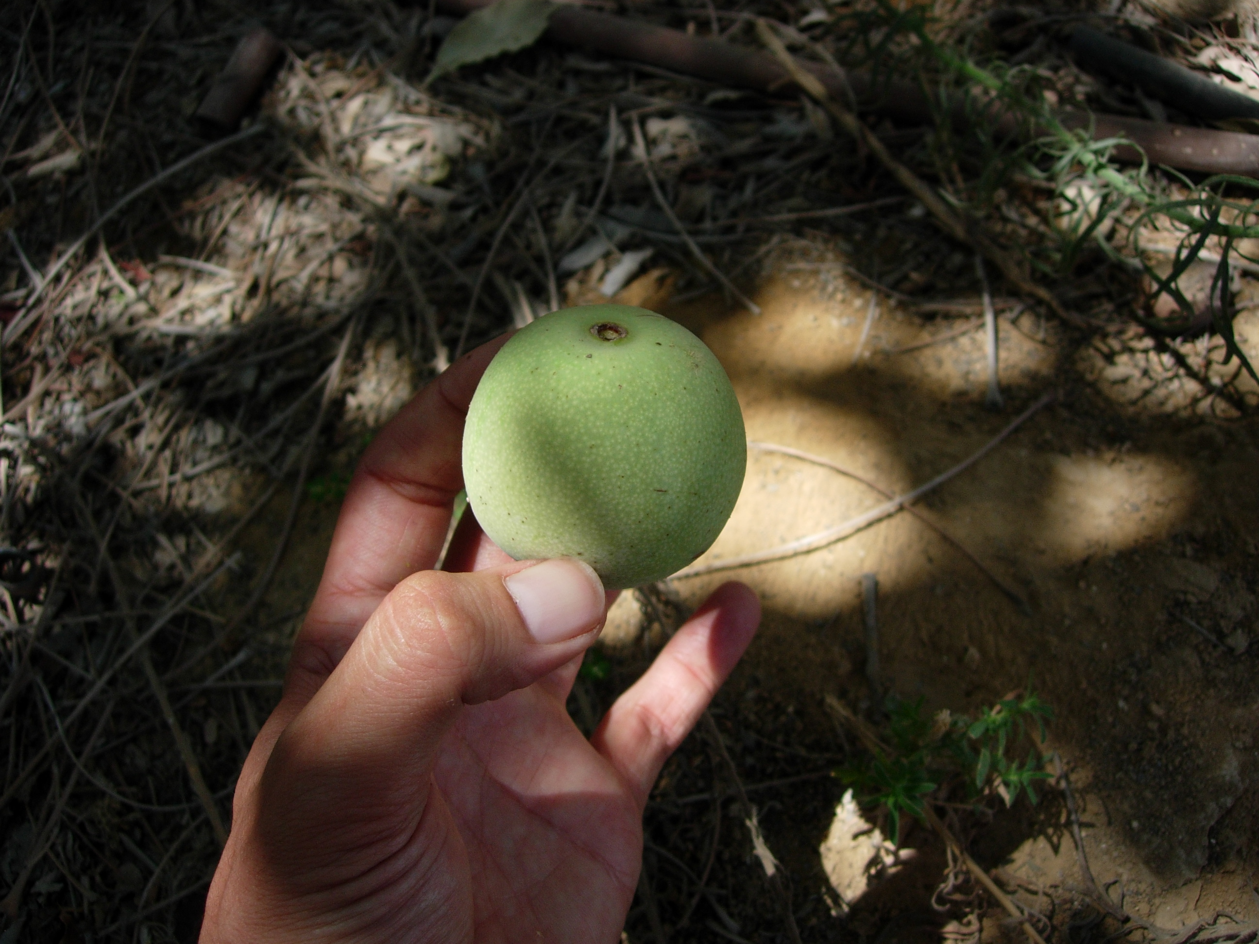 Amarula fruit